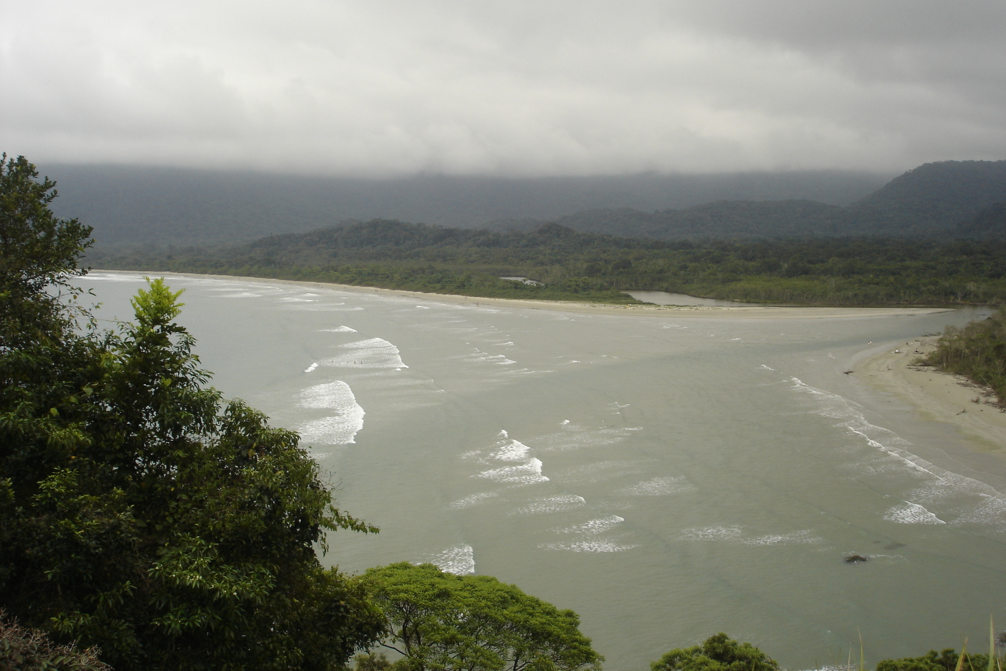 Base level of Fazenda River, Fazenda Beach, Ubatuba, São Paulo, Brazil.